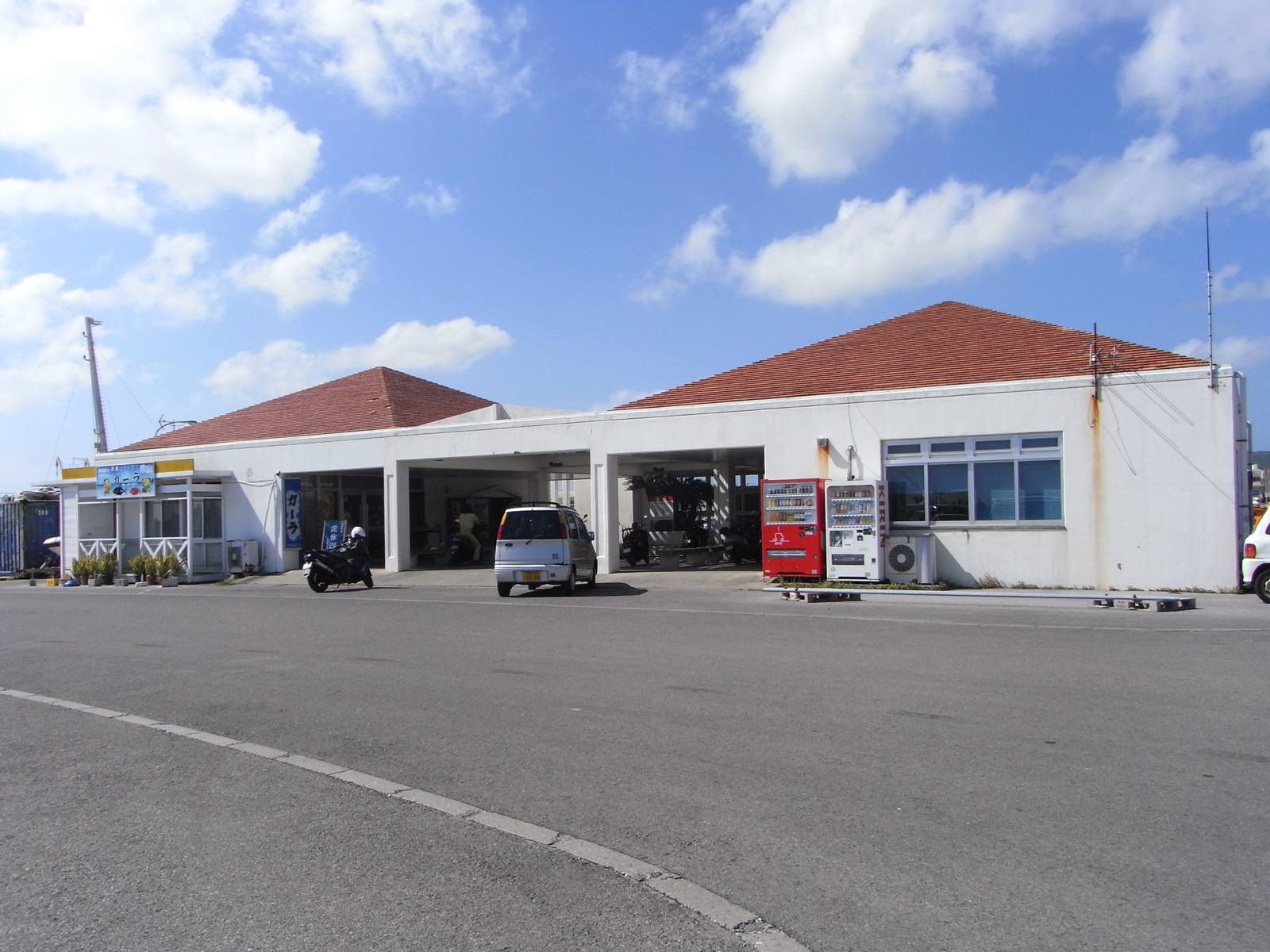 Ishigaki Port Ferry Berth, Ishigaki, Okinawa, Japan